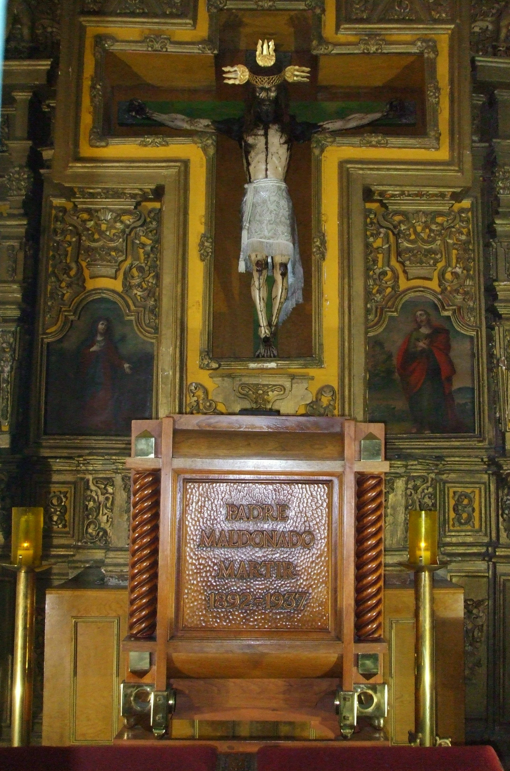 Tomb of St Peter of Jesus, Chihuahua, Mexico